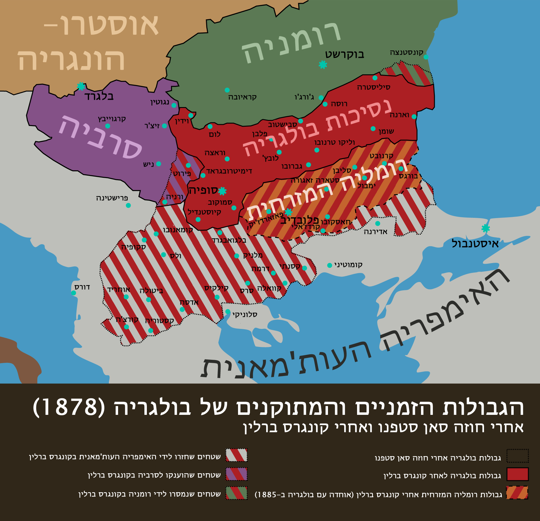 Provisional and revised borders of Bulgaria (1878). According to the Treaty of San Stefano and the Treaty of Berlin.